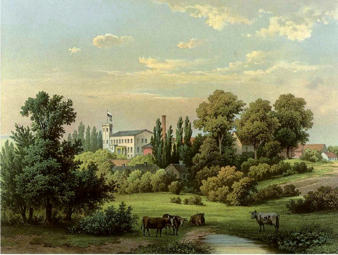 Sulibórz